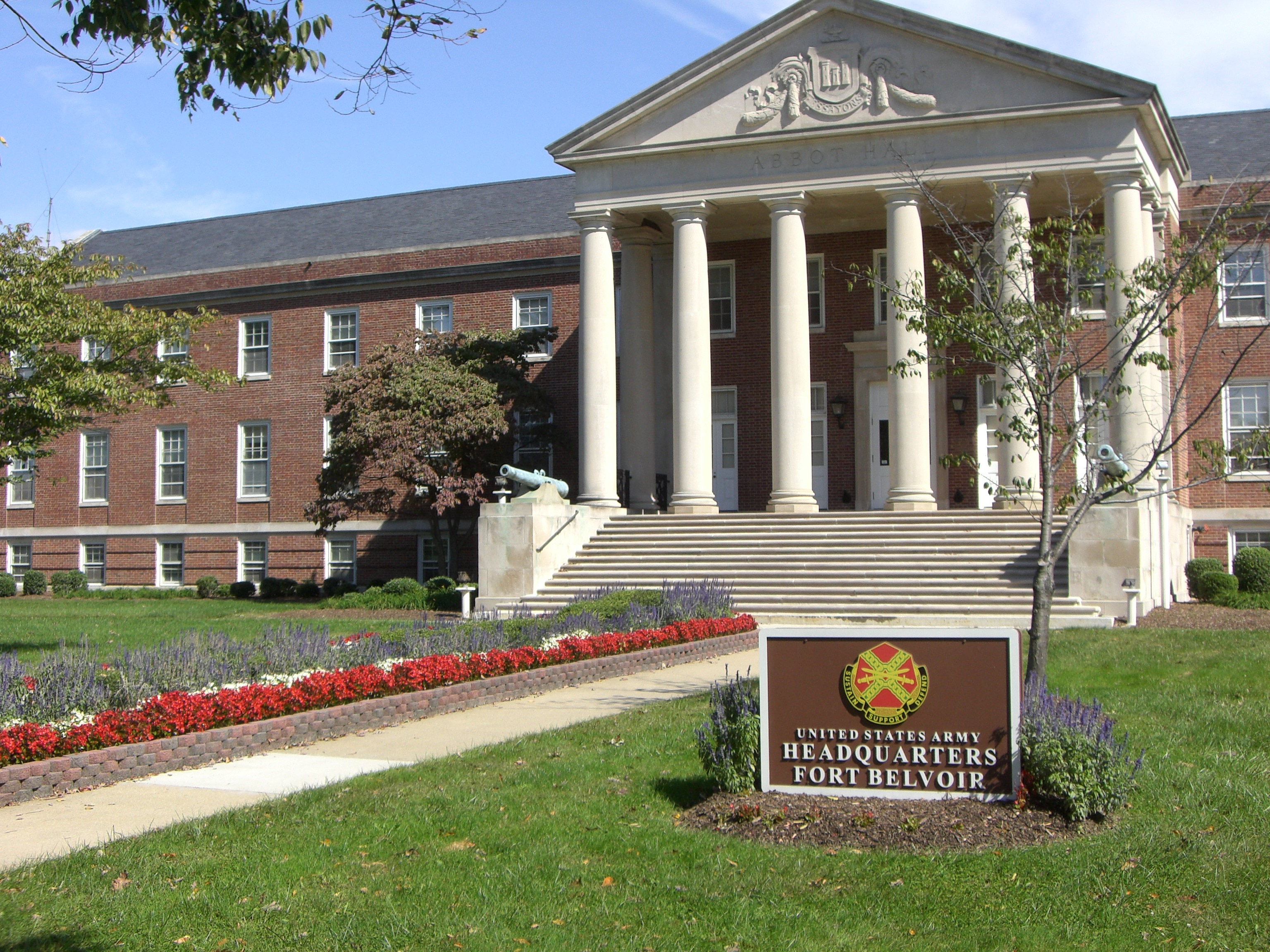 Post Headquarters Building, Fort Belvoir, Virginia